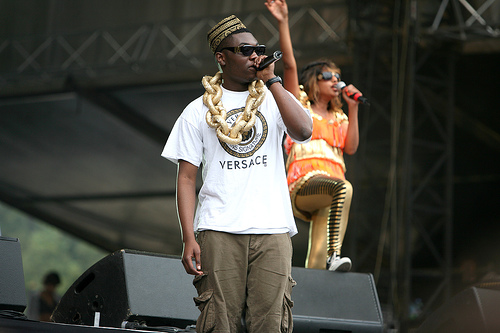 M.I.A's concert, Paris, Rock en Seine 2007.